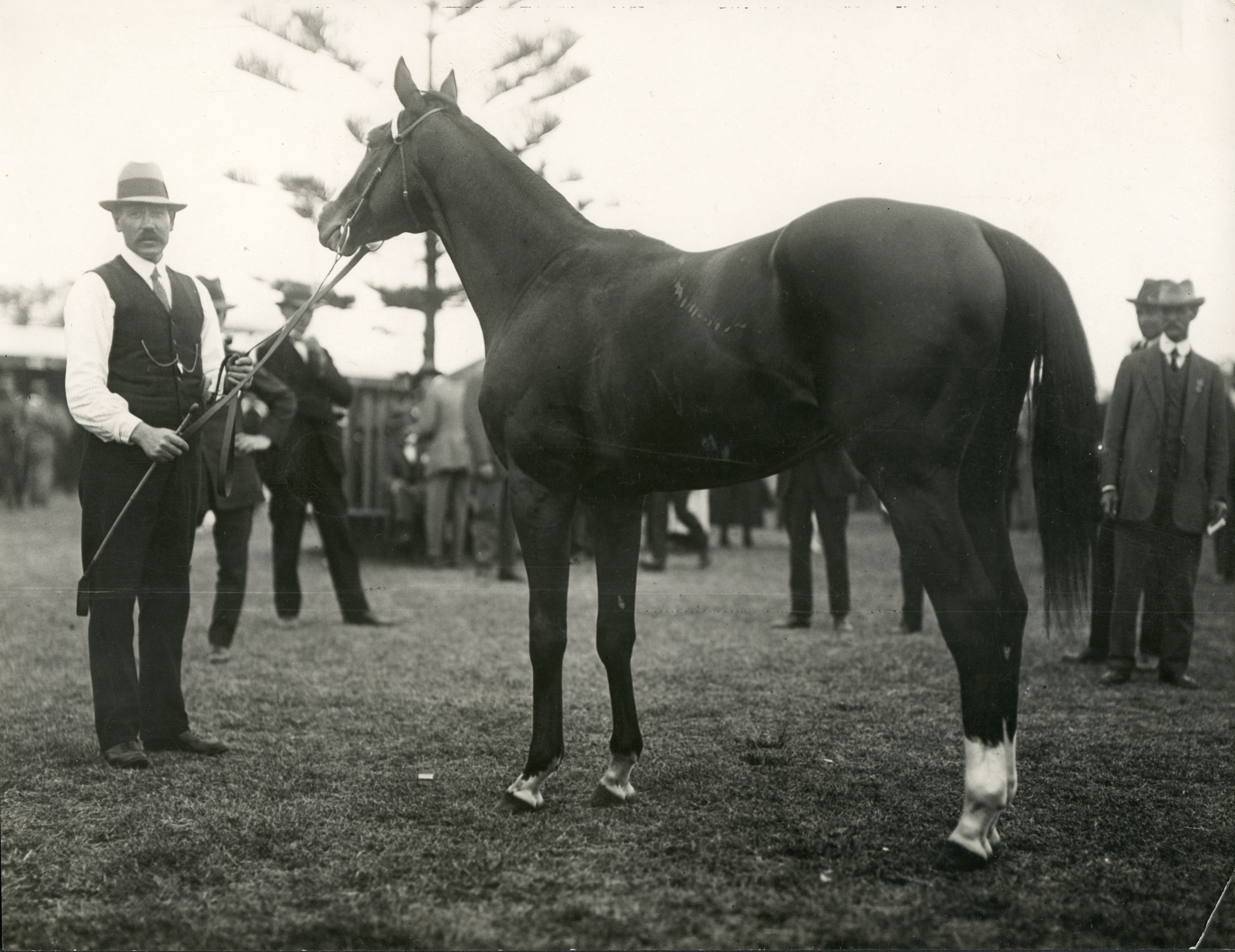 High resolution scan from original photo